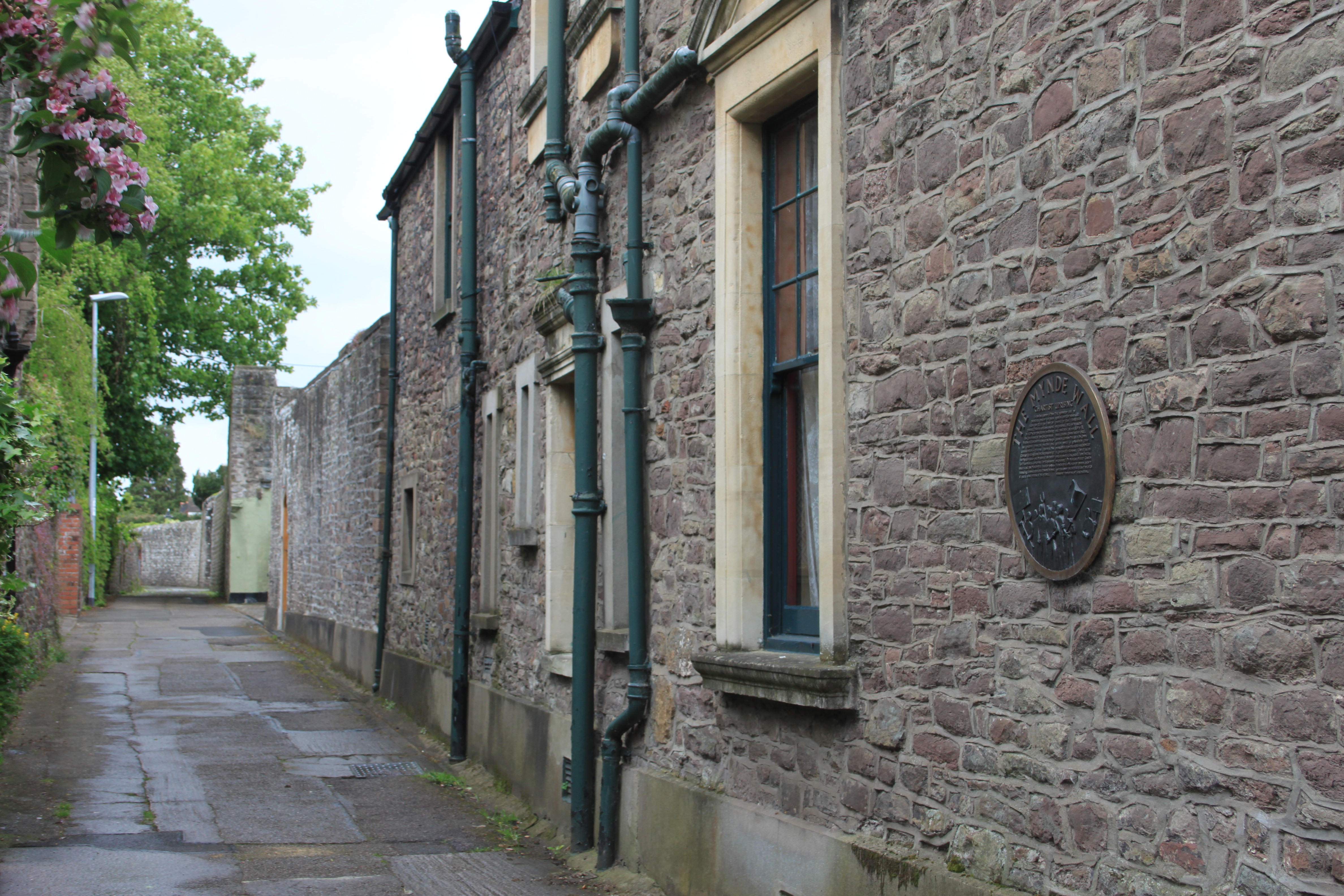 © Copyright Roger Davies and licensed for reuse under